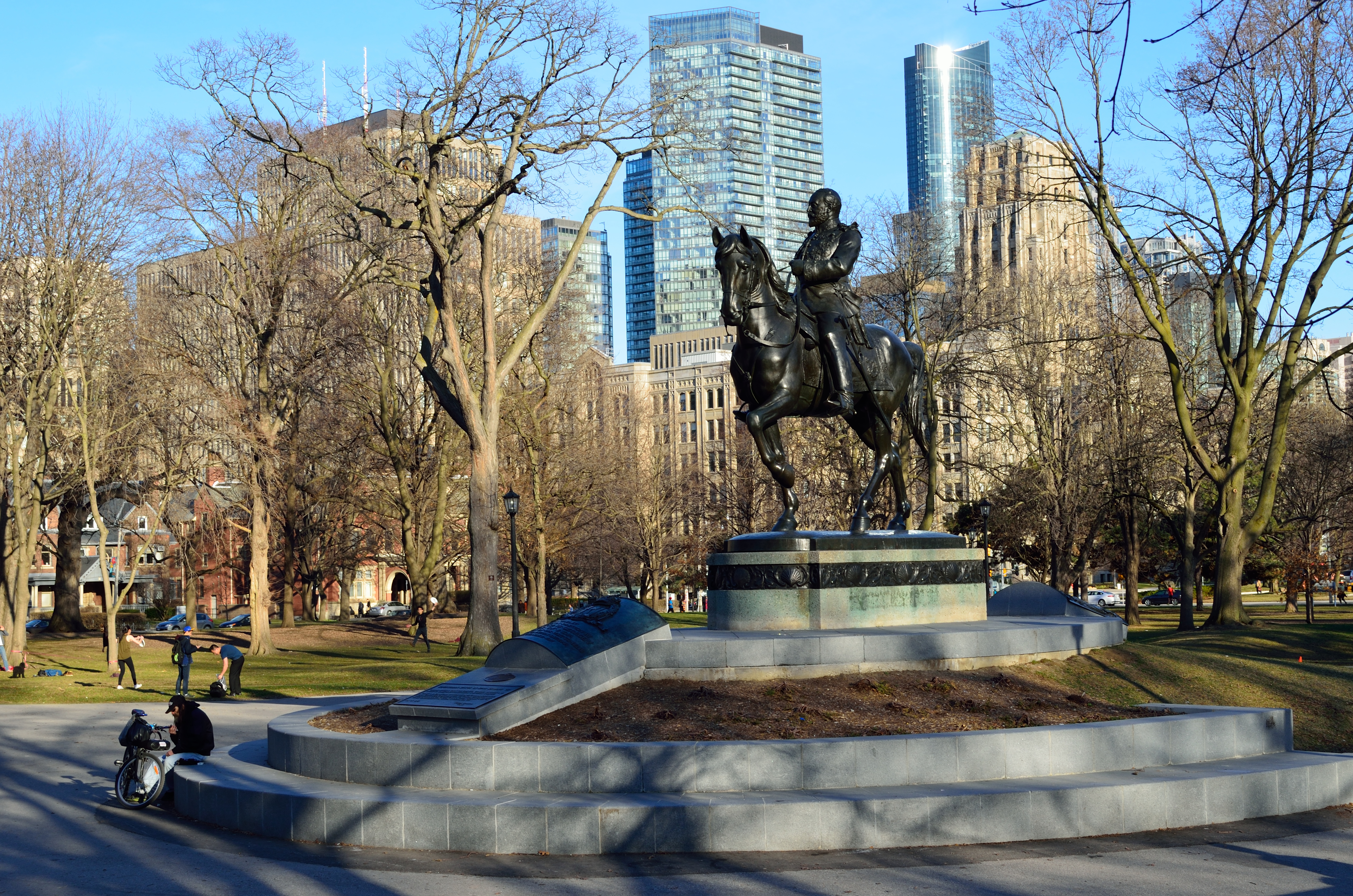 Toronto Queen's Park